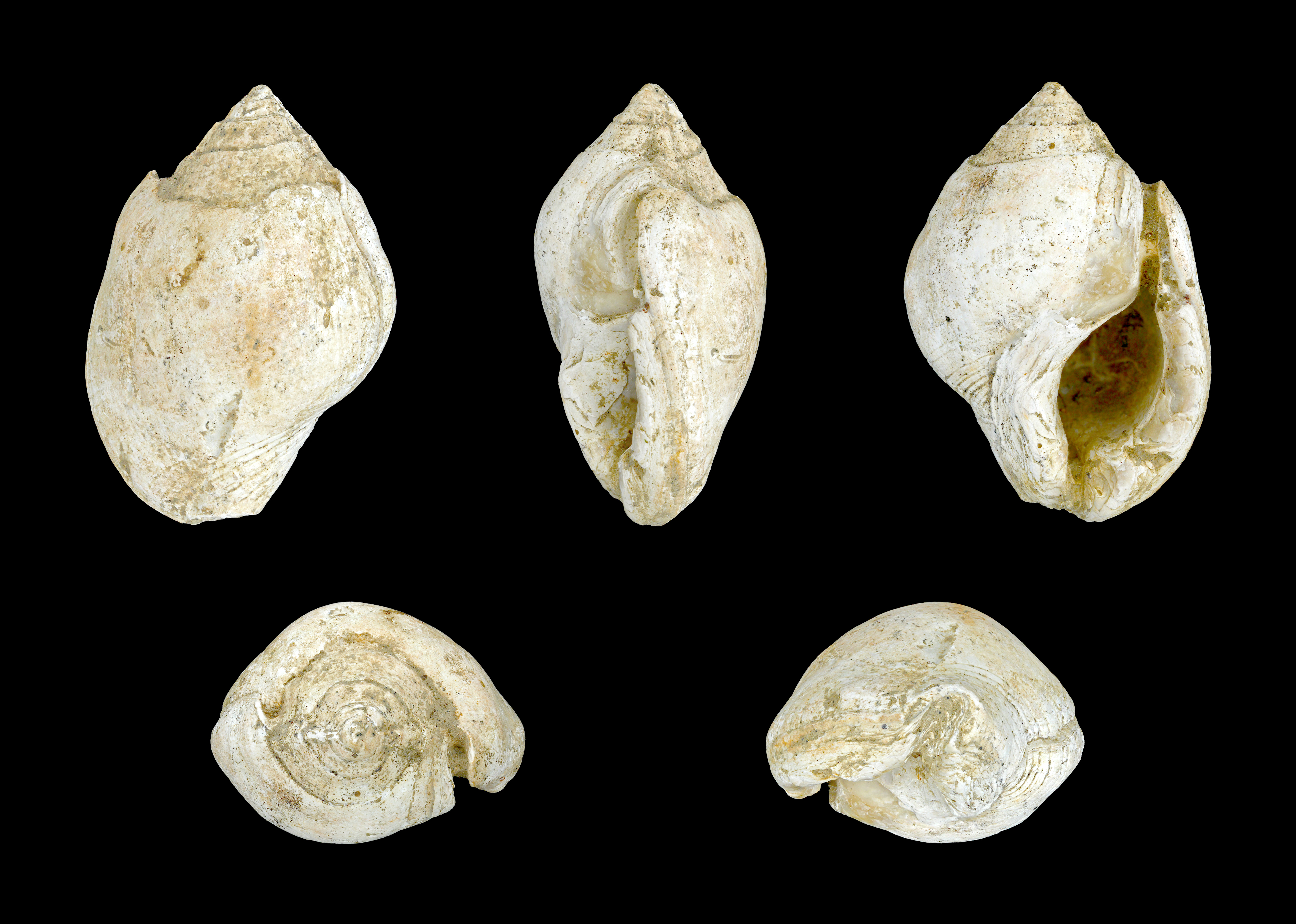 Aspa marginata (Gmelin, 1791); Length 3.7 cm; Pliocene, Neogene, Tertiary; Orvieto, Umbria, Italy; Shell of own collection, therefore not geocoded.